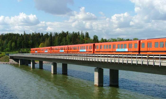 A Helsinki metro train crossing the Vuosaari metro bridge, between the stations of Rastila and Puotila. The train is heading towards Helsinki centre.